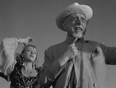 Screenshot from Italian film Lo sceicco bianco (1952)